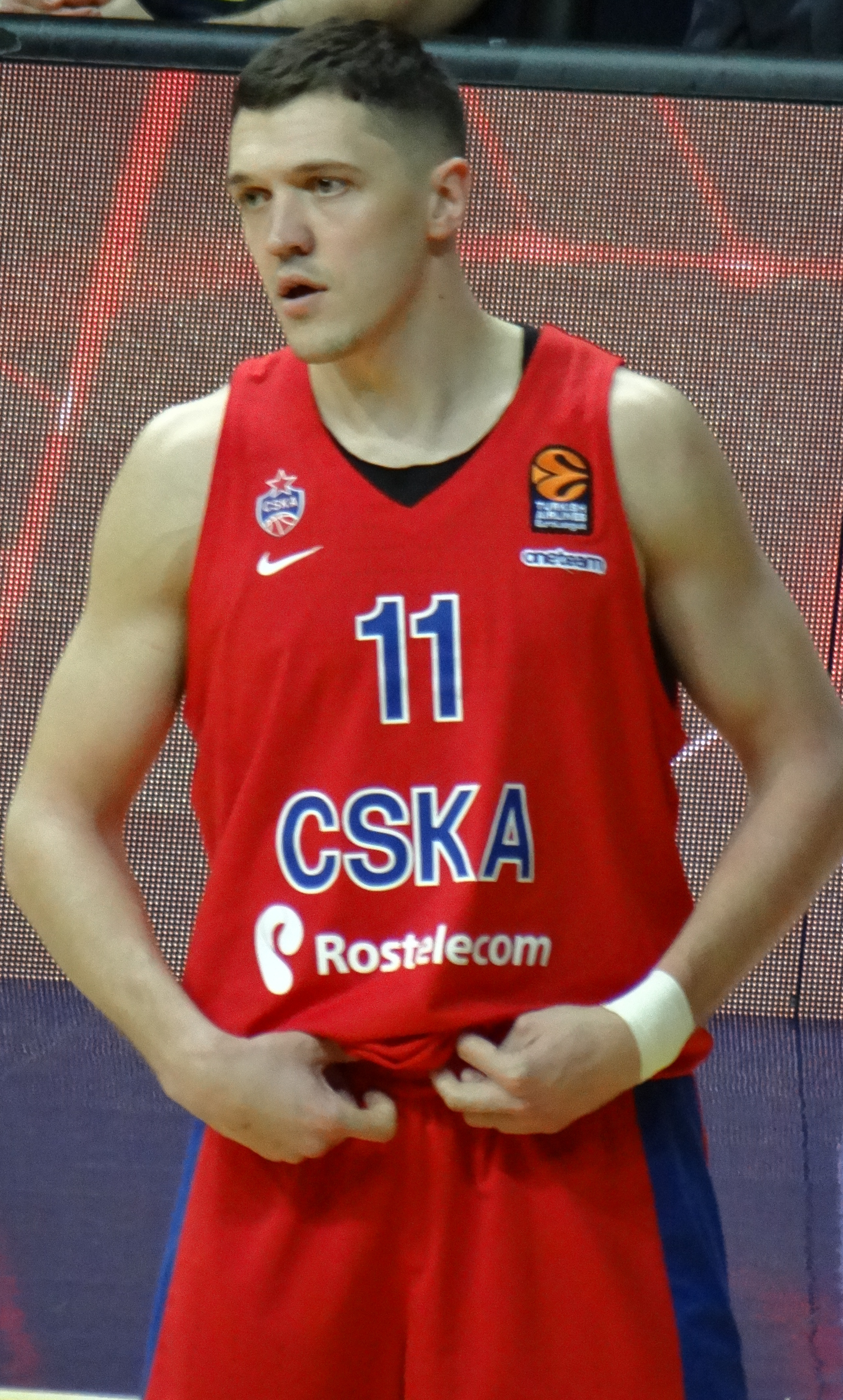 Semyon Antonov 11 PBC CSKA Moscow EuroLeague 20180316